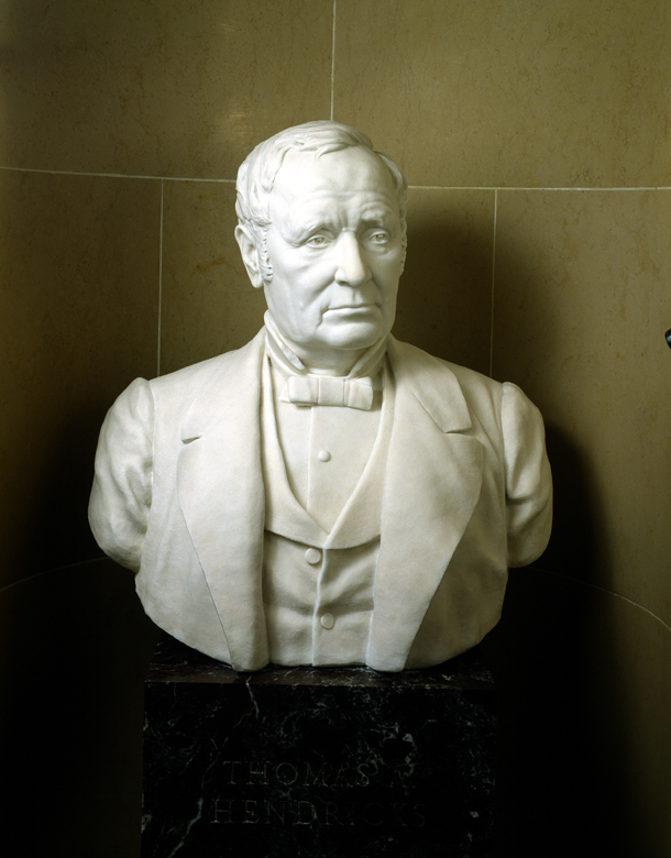 Ks by Ulric Stonewall Jackson Dunbar (1862 - 1927) Marble, Modeled 1886, Carved 1890 Overall (bust) measurement Height: 29.25 inches (74.3 cm) Width: 27 inches (68.6 cm) Depth: 17 inches (43.2 cm) Unsigned Cat. no. 22.00021.000